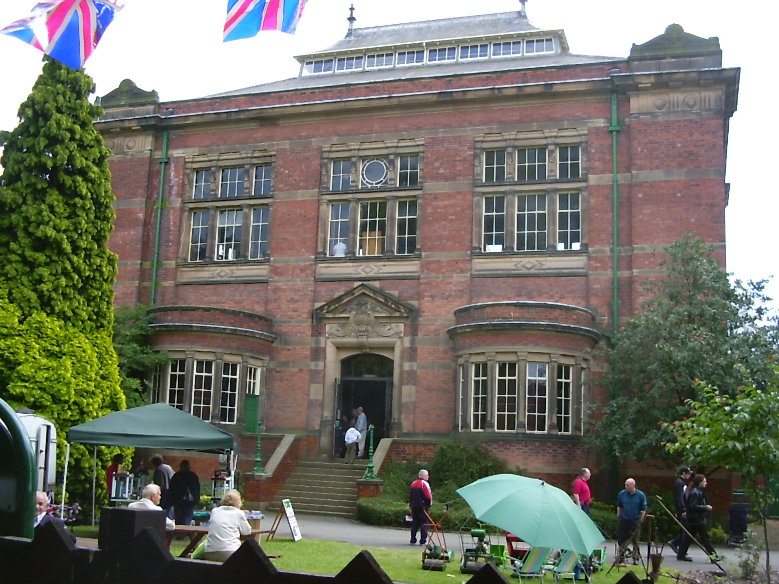 Abbey Pumping station building front